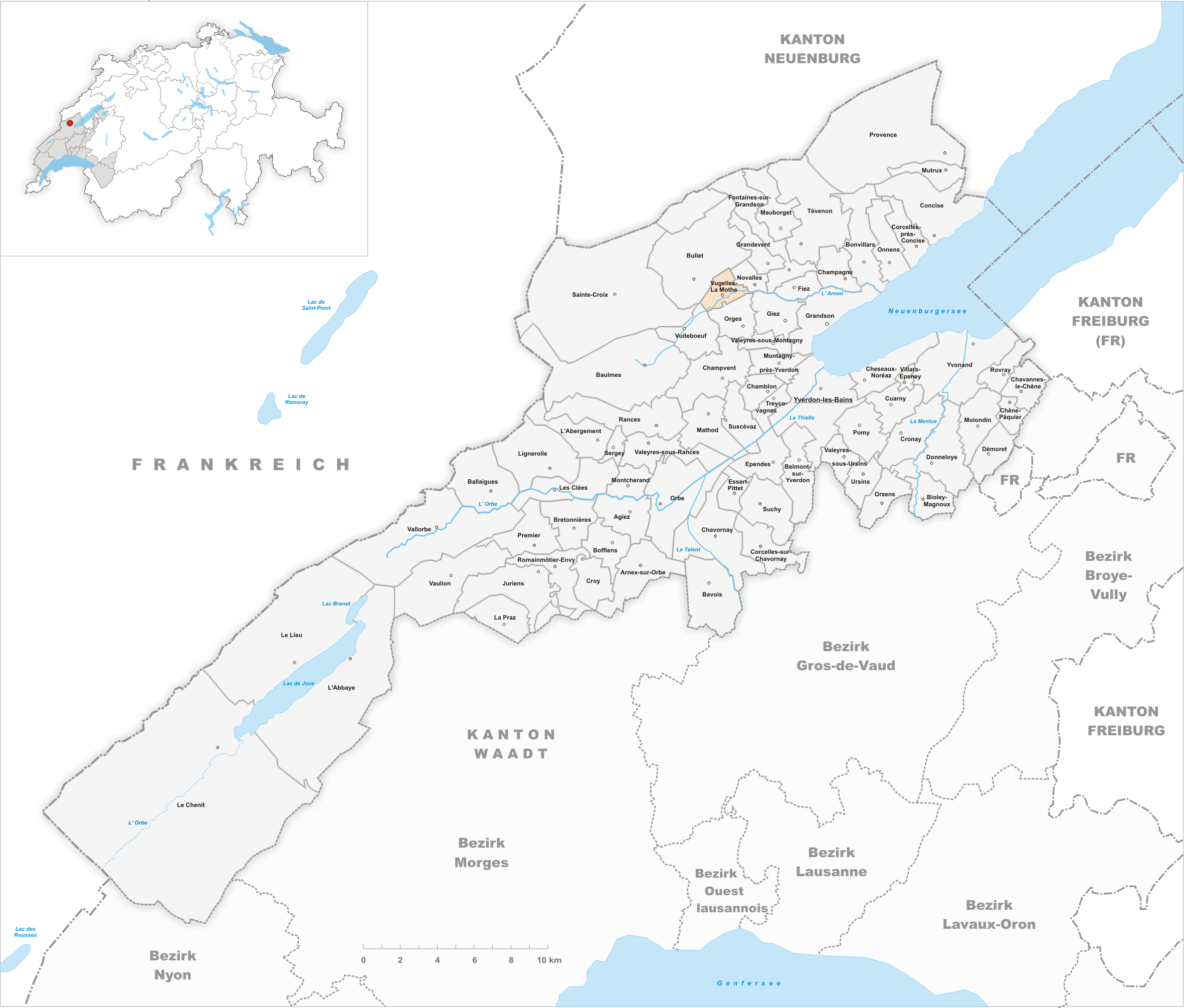 Municipality Vugelles-La Mothe